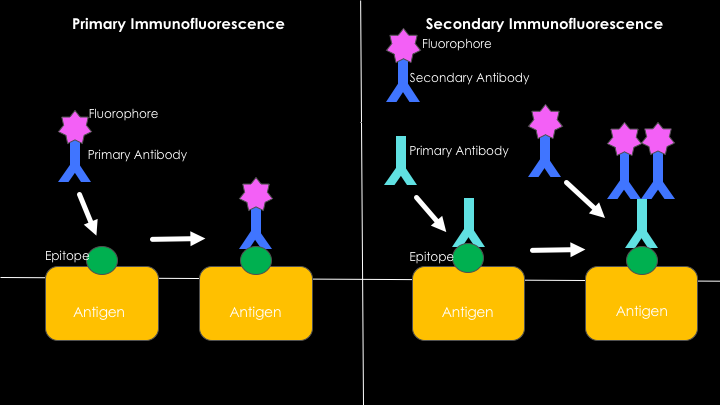 This figure demonstrates the basic mechanism of immunofluorescence. Primary immunofluorescence is depicted to the left, which shows an antibody with a fluorophore group bound to it directly binding to the epitope of the antigen it’s specific for. Once the antibody binds to the epitope, the sample can be viewed under fluorescent microscope to confirm the presence of the antigen in the sample. Conversely, secondary immunofluorescence is depicted to the right, which shows that first an untagged primary antibody binds to the epitope of the antigen in a mechanism similar to the one described above. However, after the primary antibodies have bound to their target, a secondary antibody (tagged with a fluorophore) comes along. This secondary antibody’s binding sites are specific for the primary antibody that’s already bound to the antigen, and therefore the secondary antibody binds to the primary antibody. This method allows for more fluorophore-tagged antibodies to attach to their target, thus increasing the fluorescent signal during microscopy.